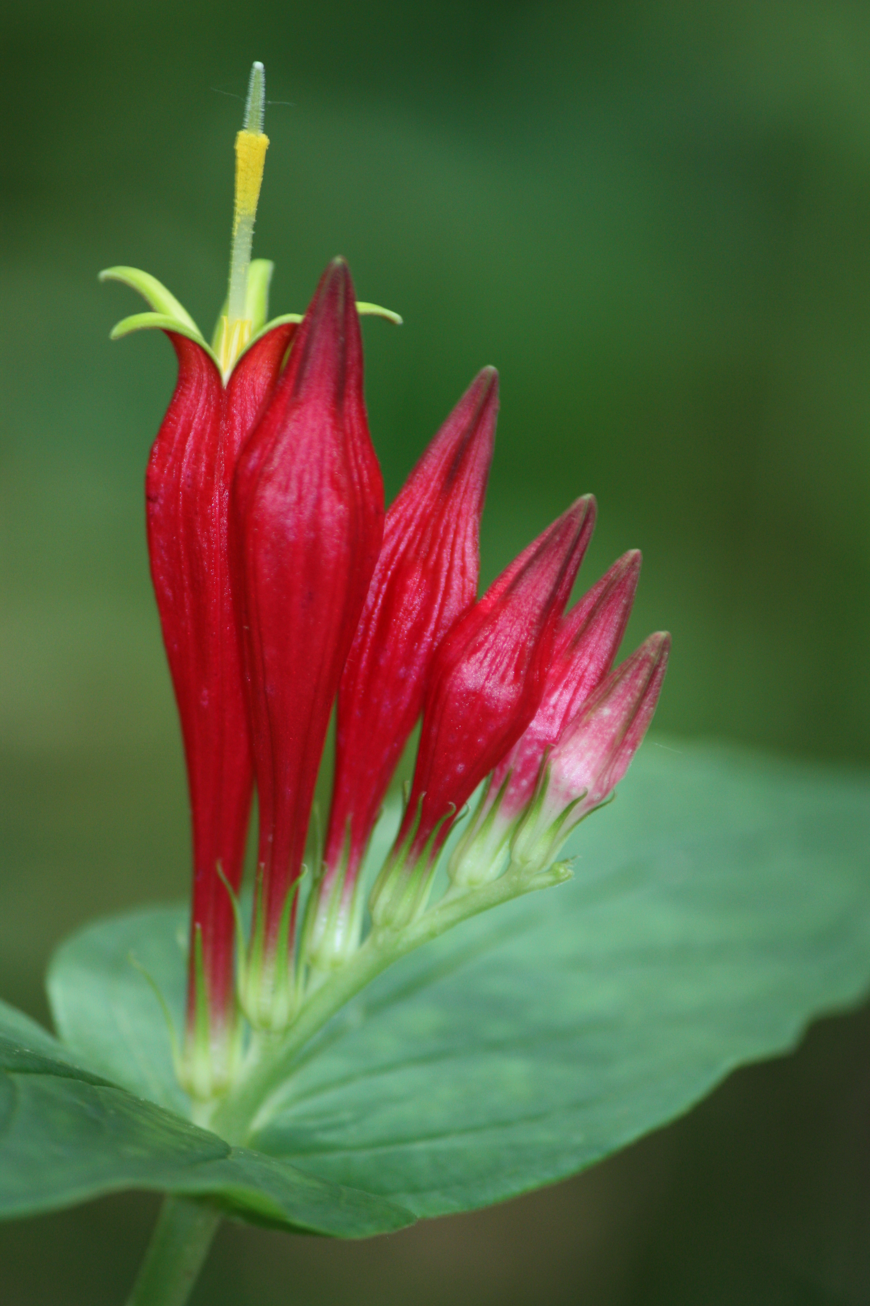 Spigelia marilandica (woodland pinkroot) flowers seen in Red Clay State Park, TN.